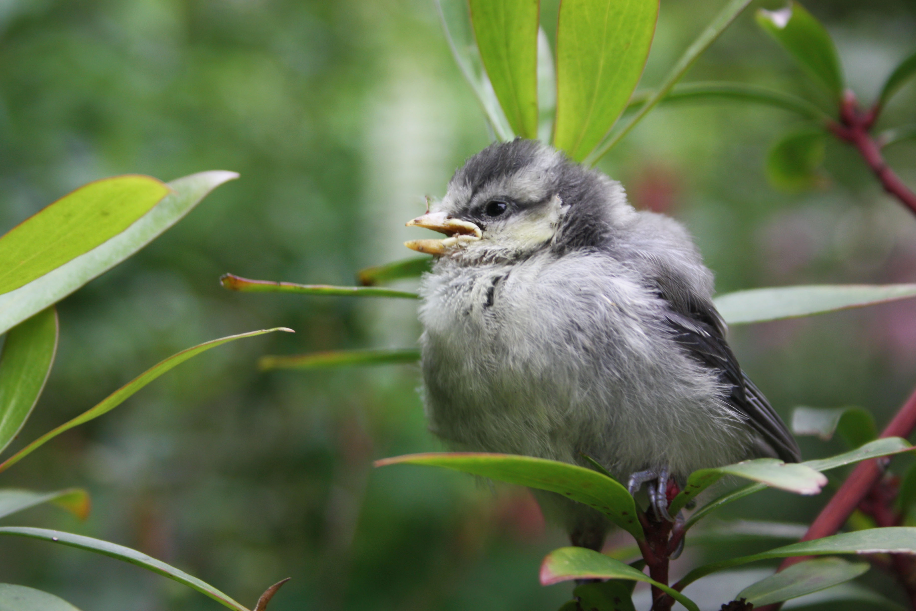 Blue tit (Cyanistes caeruleus) juvenile, in Warwick Square, London SW1